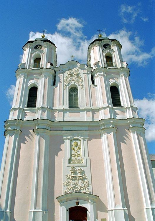 Church of St. Mary in Sejny, Poland